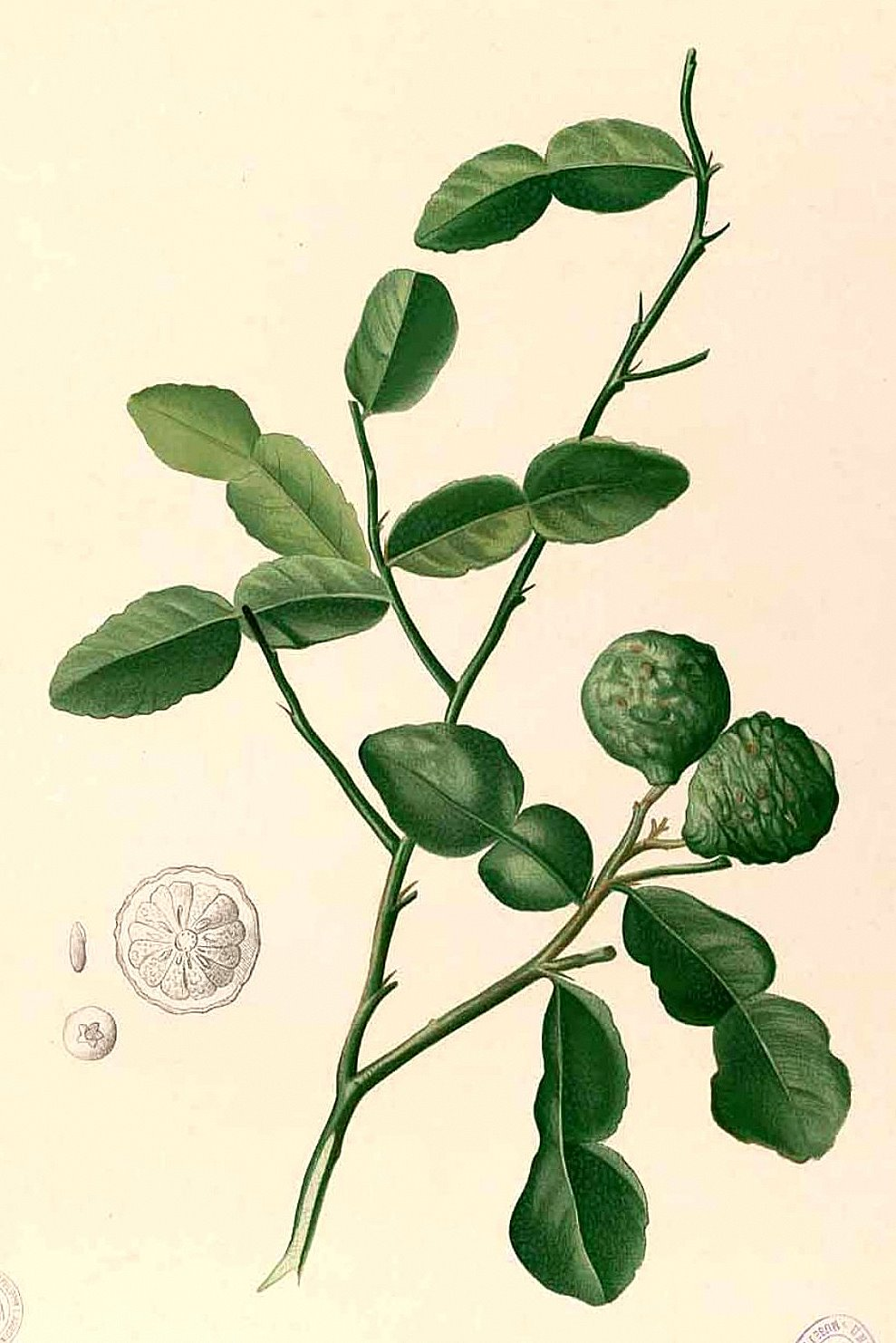 Plate from book